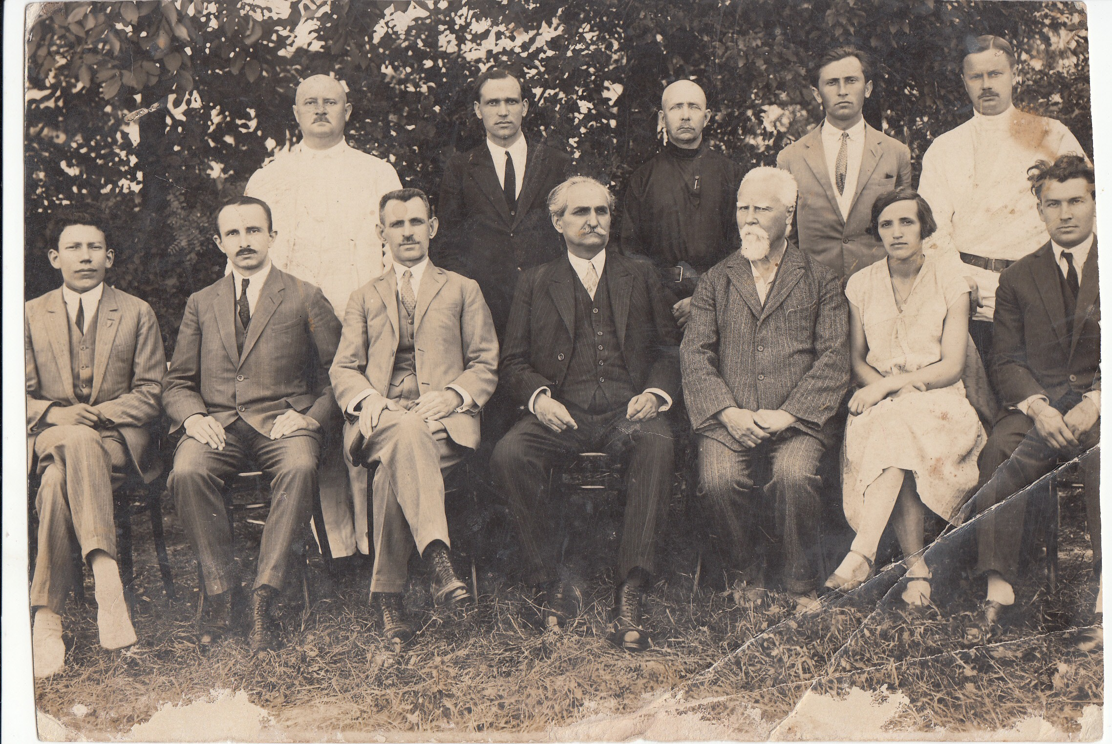 A photograph of the teaching staff of the Gymnasium "Jan Kolar" in Bački Petrovac (Vojvodina, Serbia) (1925-1927). Inventory number 2917. Srpski (latinica): Fotografija nastavničkog kolektiva gimnazije "Jan Kolar" u Bačkom Petrovcu (1925-1927). Inventarski broj 2917.